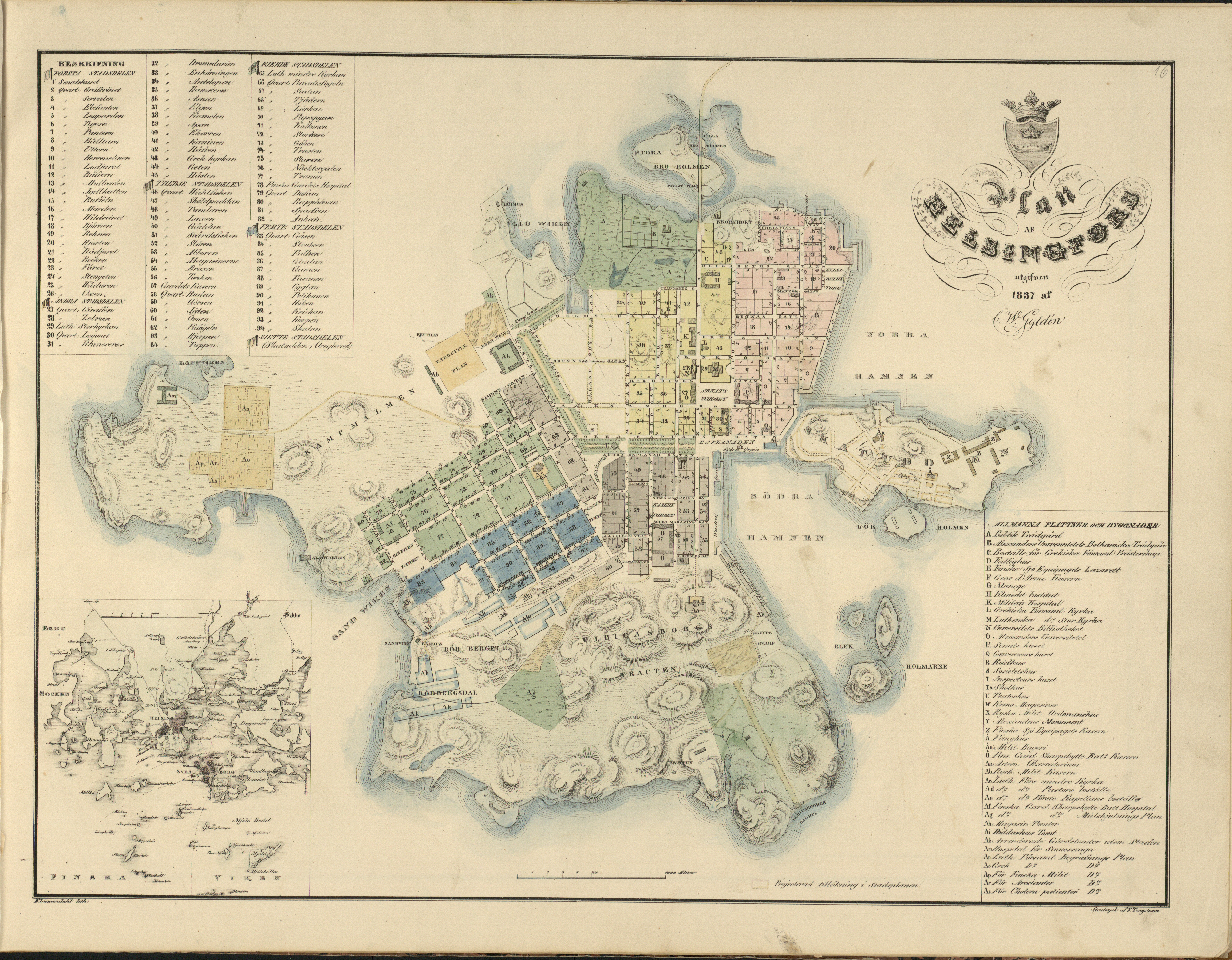 Map of Helsinki, Finland. First published in 1837. Part of a collection of city maps made and published by Claes Wilhelm Gyldén (1802–1872) from 1837 to 1843.